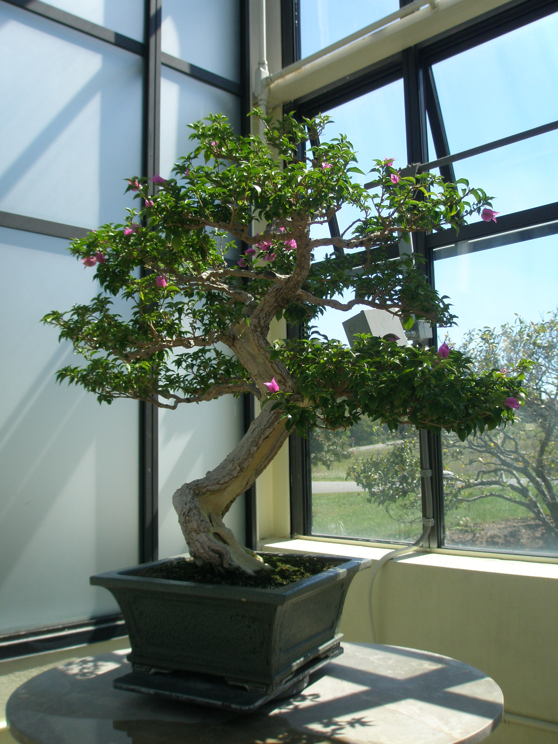 Bougainvillea bonsai at the United States National Arboretum. In training since 1985.